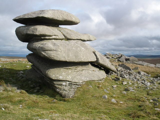 Showery Tor